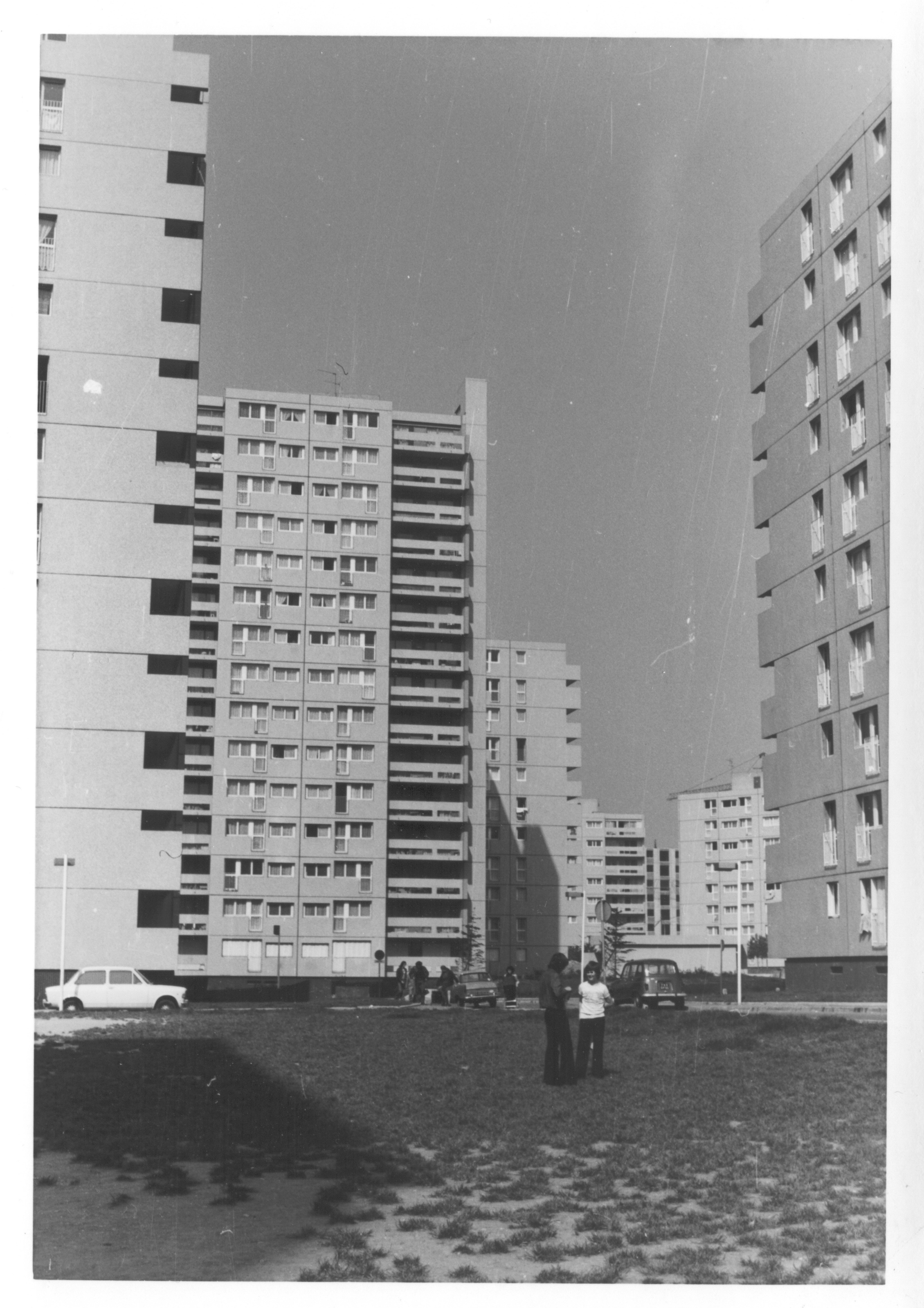 Apartment buildings in Argenteuil.